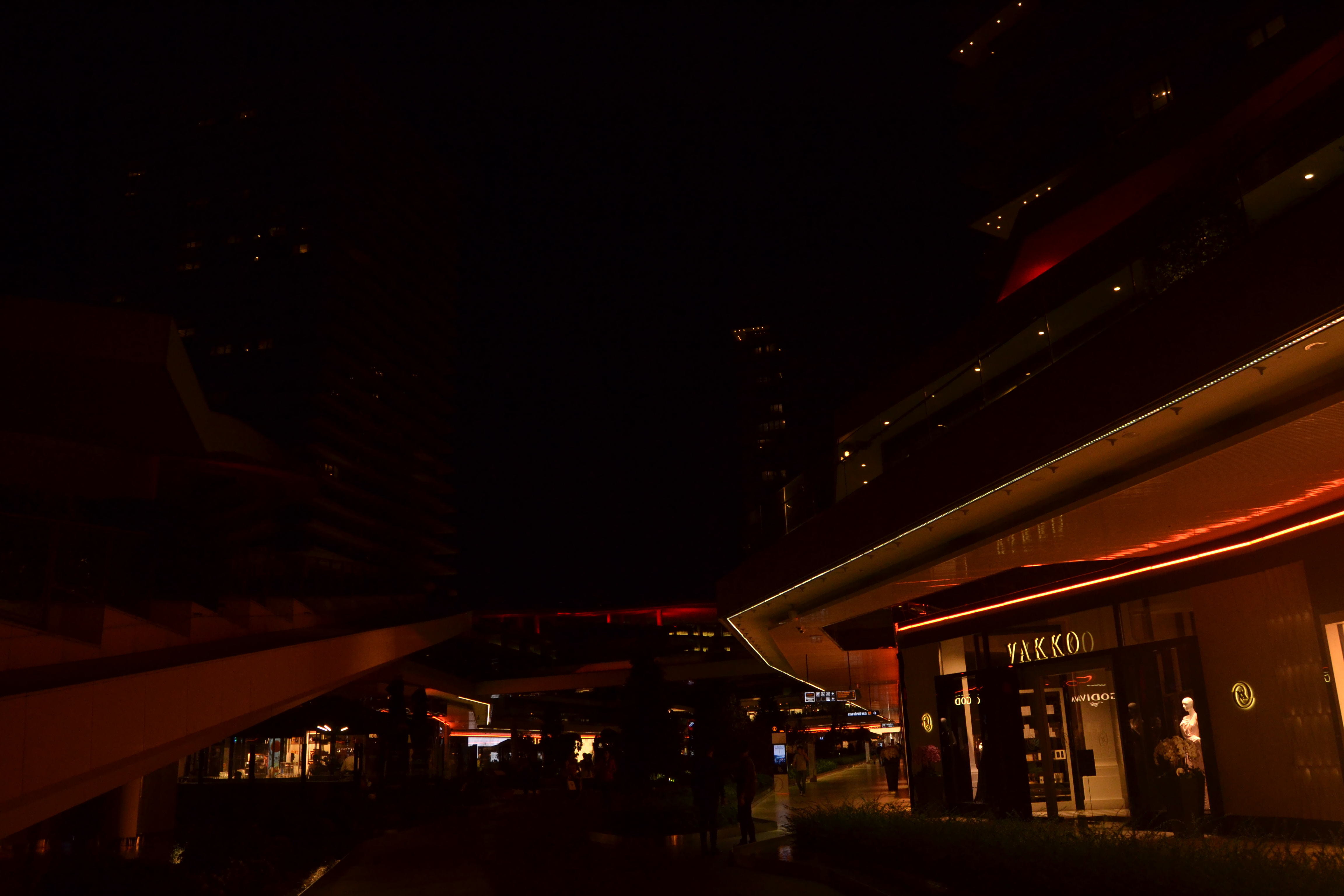 This picture was taken after the shopping mall had closed, and it was aimed at contrasting the linear architecture to the dark background.